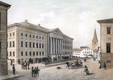 The main building of the University of Tartu